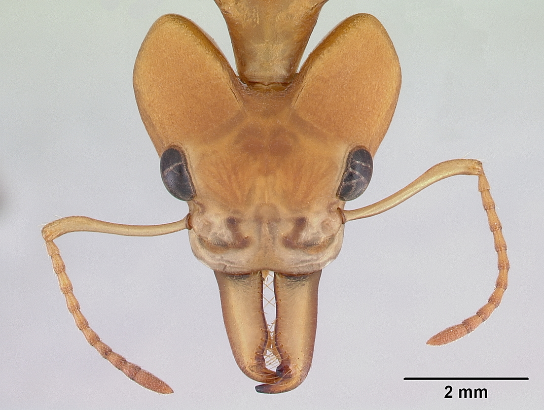 Head view of ant Daceton armigerum specimen casent0178489.